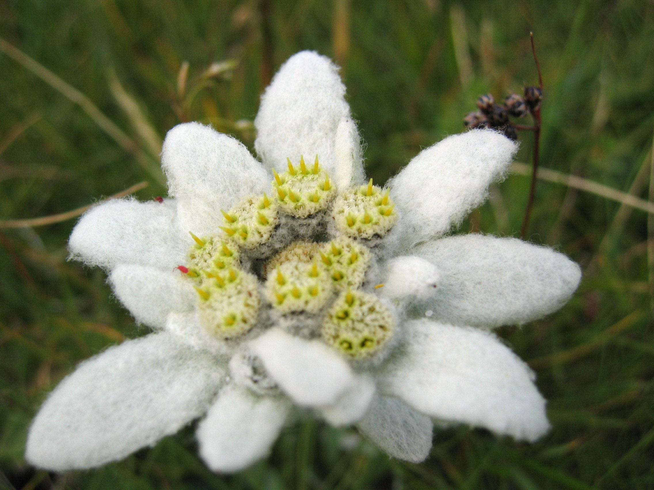 Leontopodium alpinum in the eastern Alps, on the Raxalpe, a mountain in Lower Austria, approx. 1600 m above sea level.